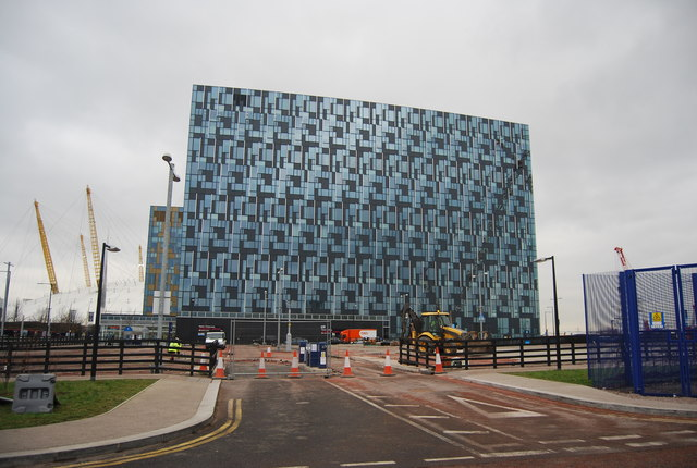 6 Mitre Passage